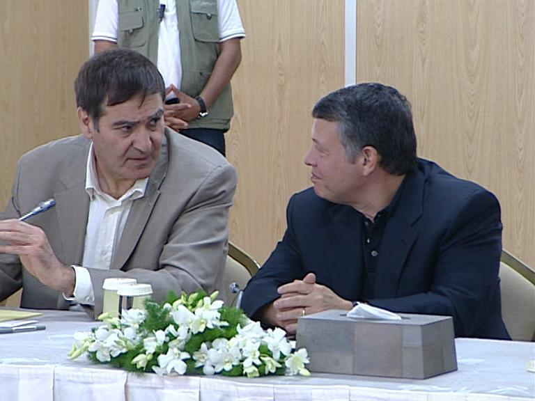 tokan3